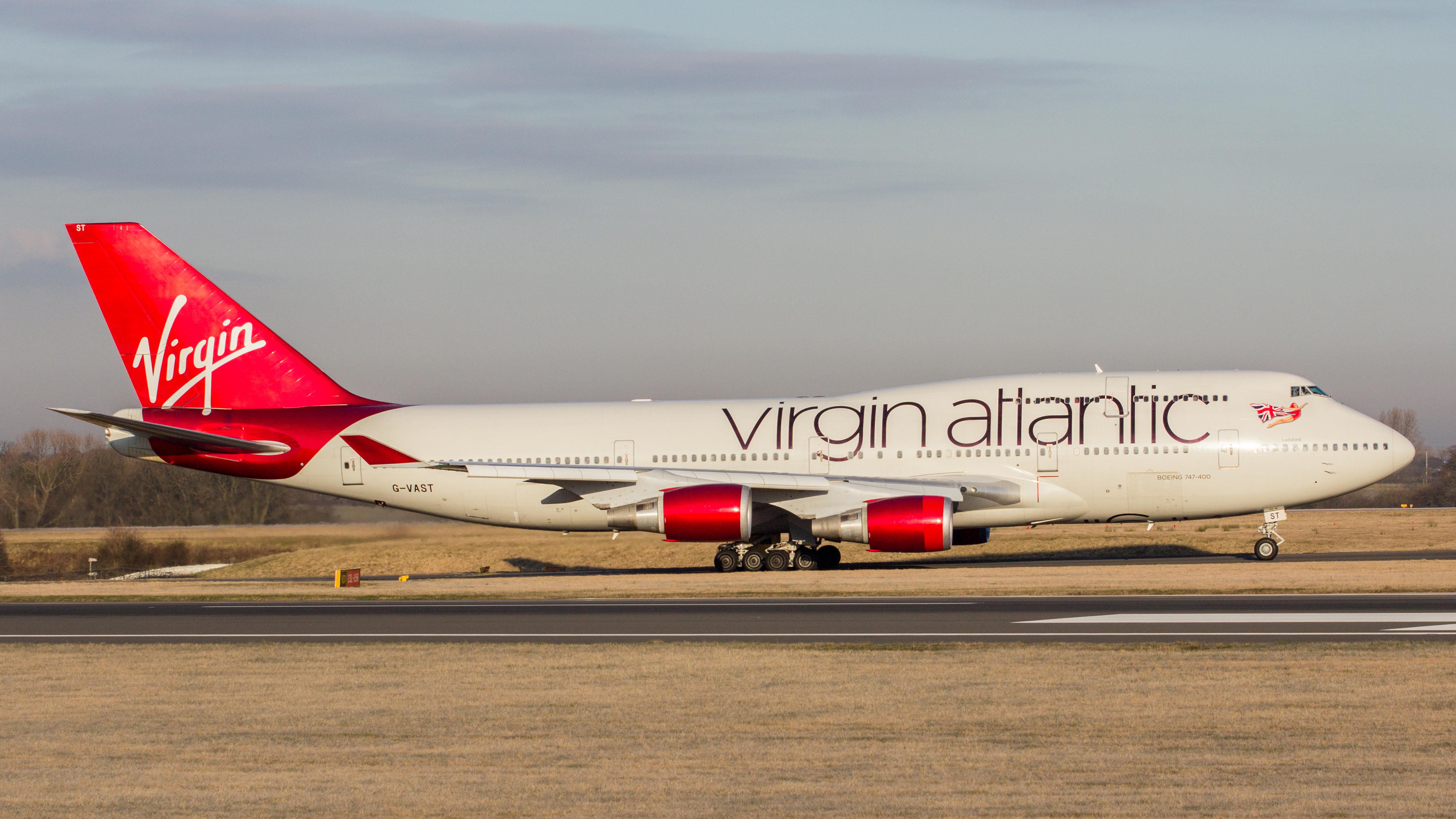 G-VAST Virgin Atlantic B747